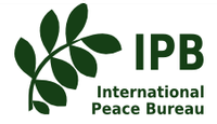 Current logo of the peace organization International Peace Bureau